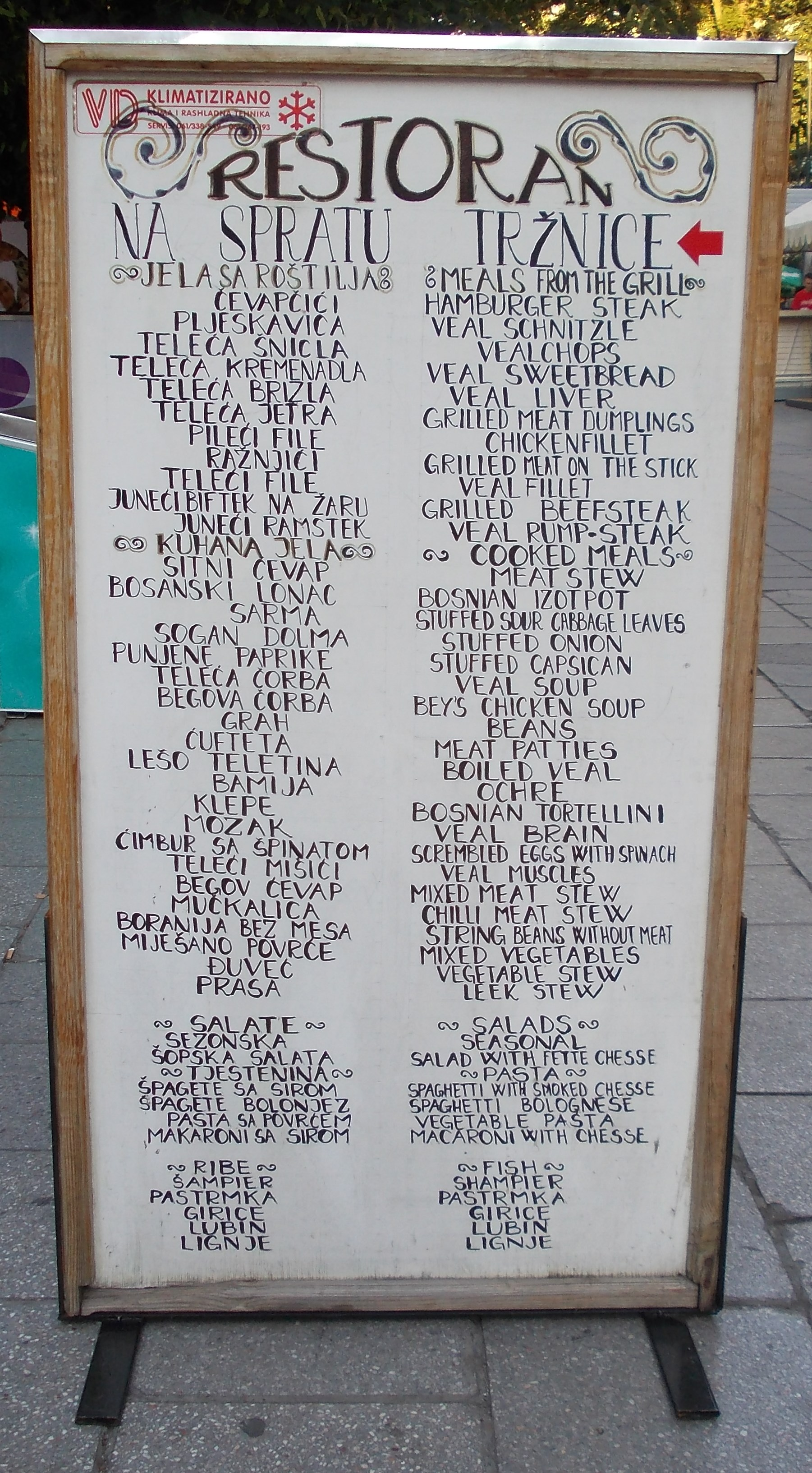 Menu in one of restaurant in centre of Sarajevo